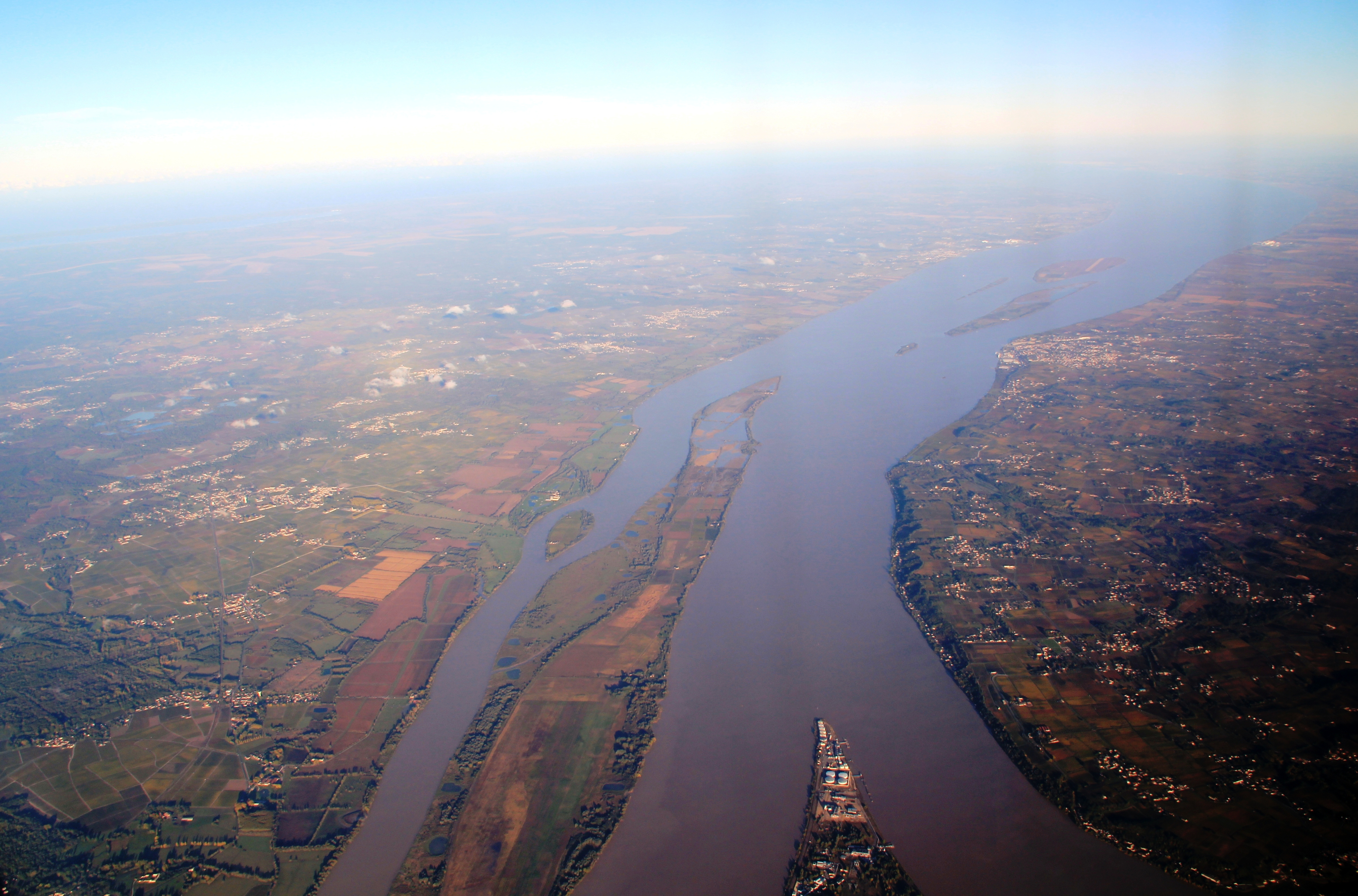 Aerial view of the Gironde estuary in Aquitaine, France. The rivers Dordogne (right) and Garonne (left) join into the estuary.